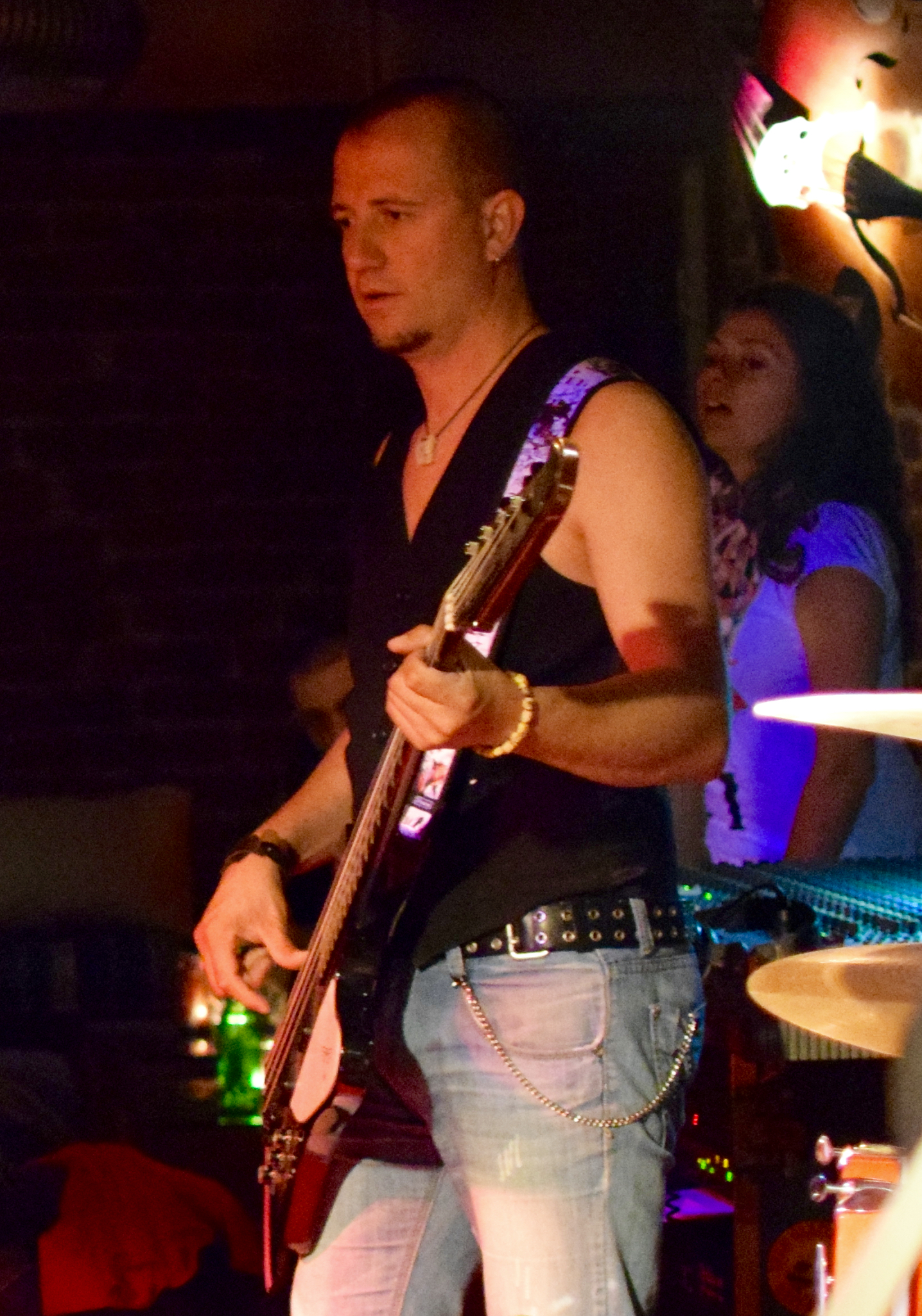 The Bulgarian musician Yuriy Bozhinov. Taken at a concert of P.I.F. at Swingin' Hall.